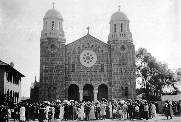 Sacred Heart Catholic Church, Port Road, Hindmarsh